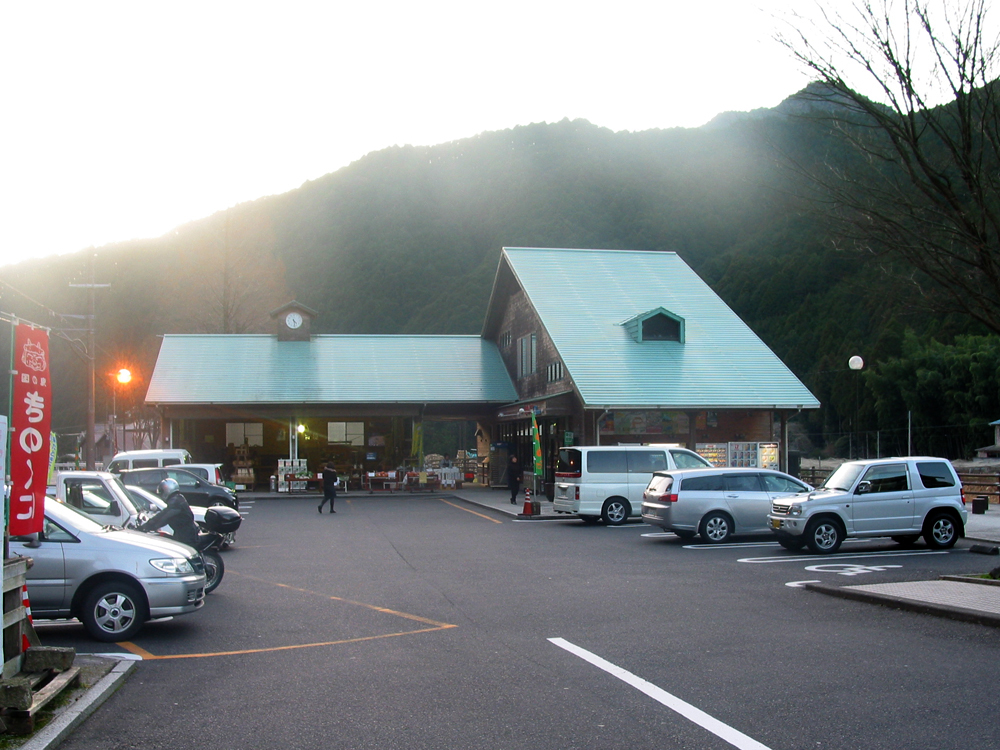 Michinoeki Kumano-Kinokuni